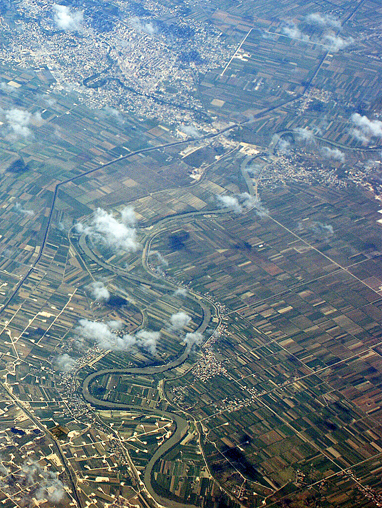 River Seman in central Albania in Myzeqe Plain Northeast of the city of Fier (top left). Probably oil fields in front.